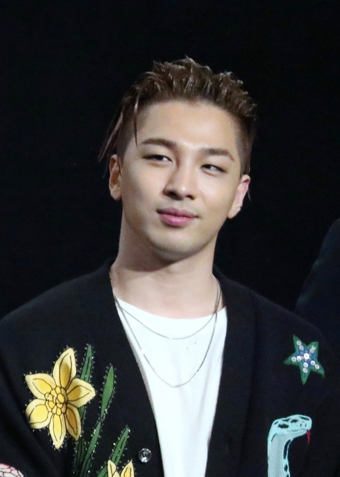 Taeyang at the Made The Movie premiere in 2016